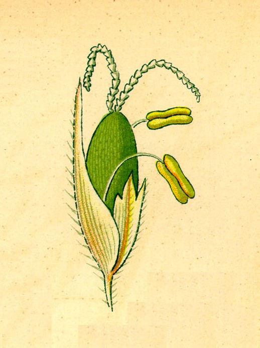 Spikelett of Coleanthus subtilis